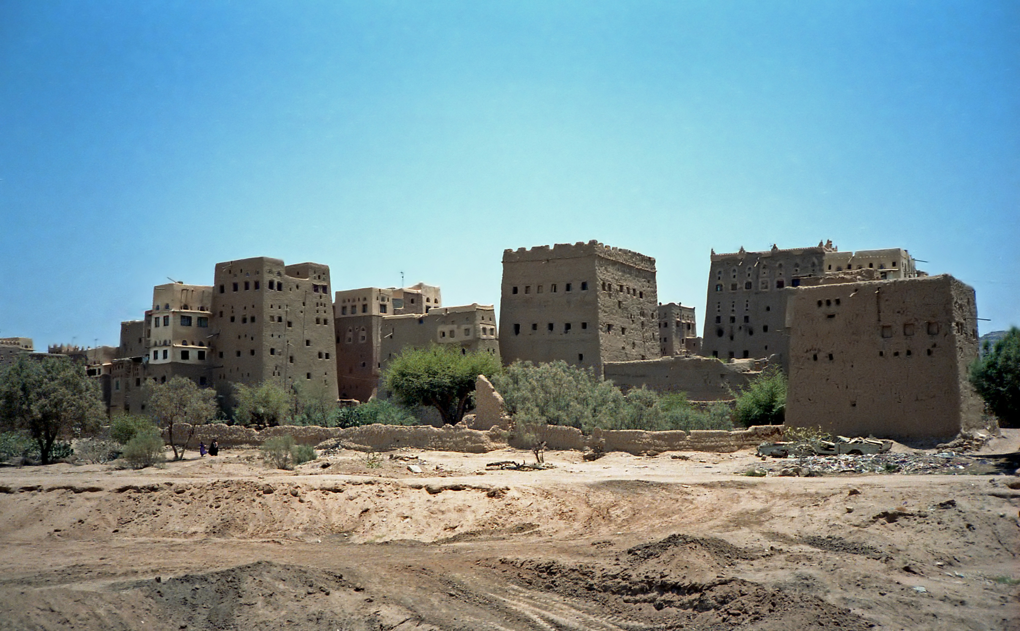 Sa'dah, Yemen